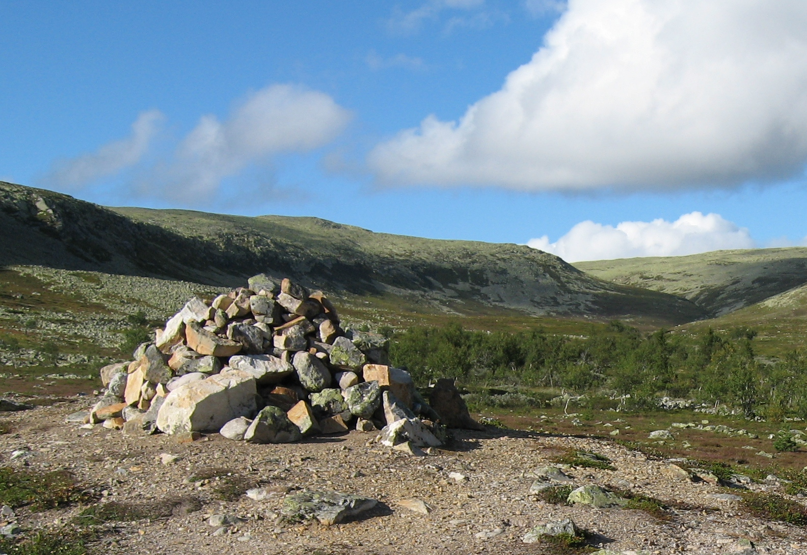 Städjan-Nipfjällets nature reserve